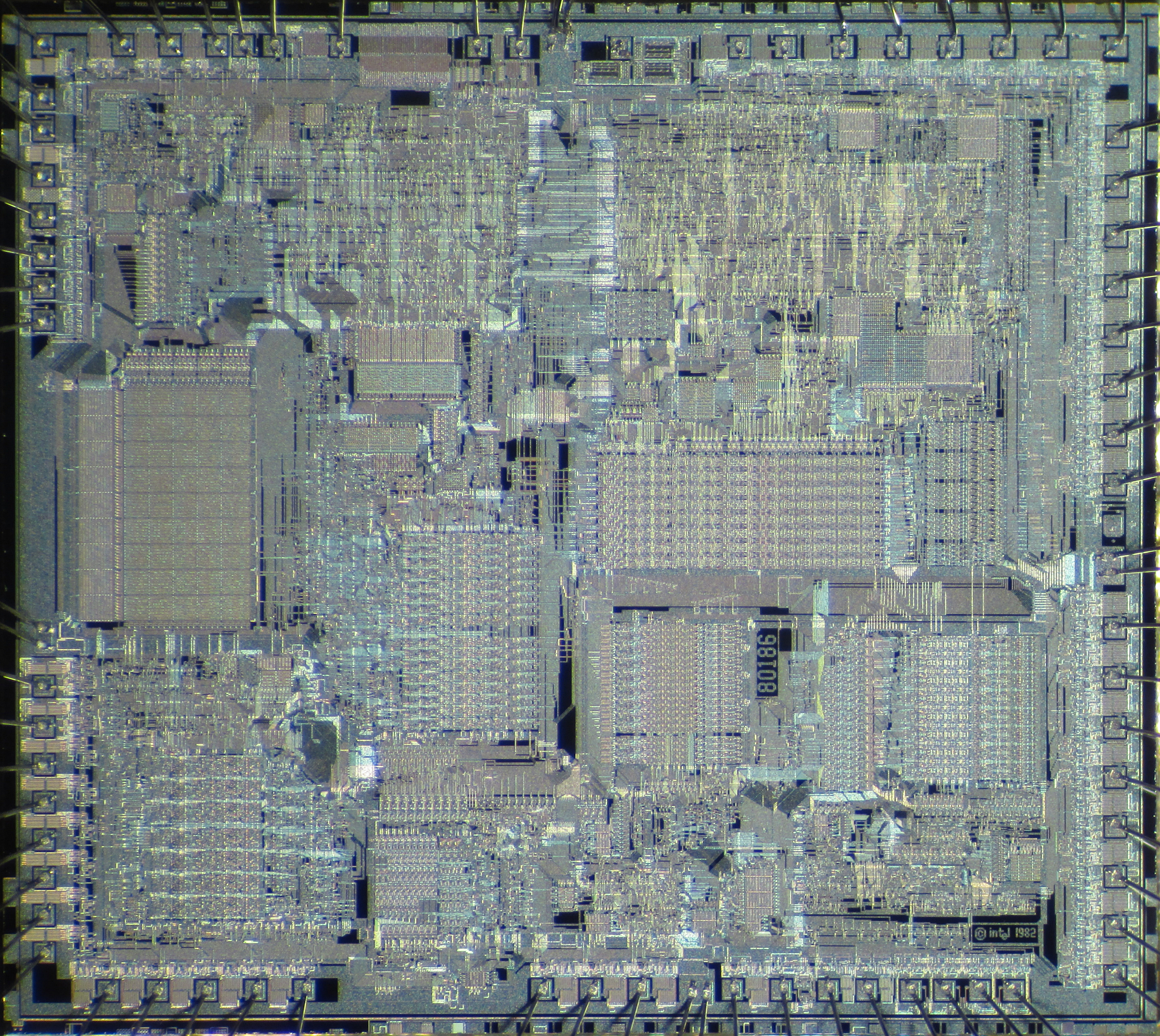 Die shot of Intel 80186 microprocessor (C80186-3, S40173).